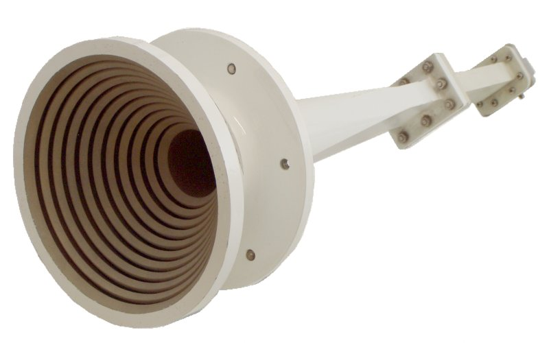 Corrugated horn antenna with a bandwidth of 3.7 to 6 GHz, designed to attach to SMA waveguide feedline. It was used until 1996 as a feed horn on an antenna on the former British base Berlin-Gatow